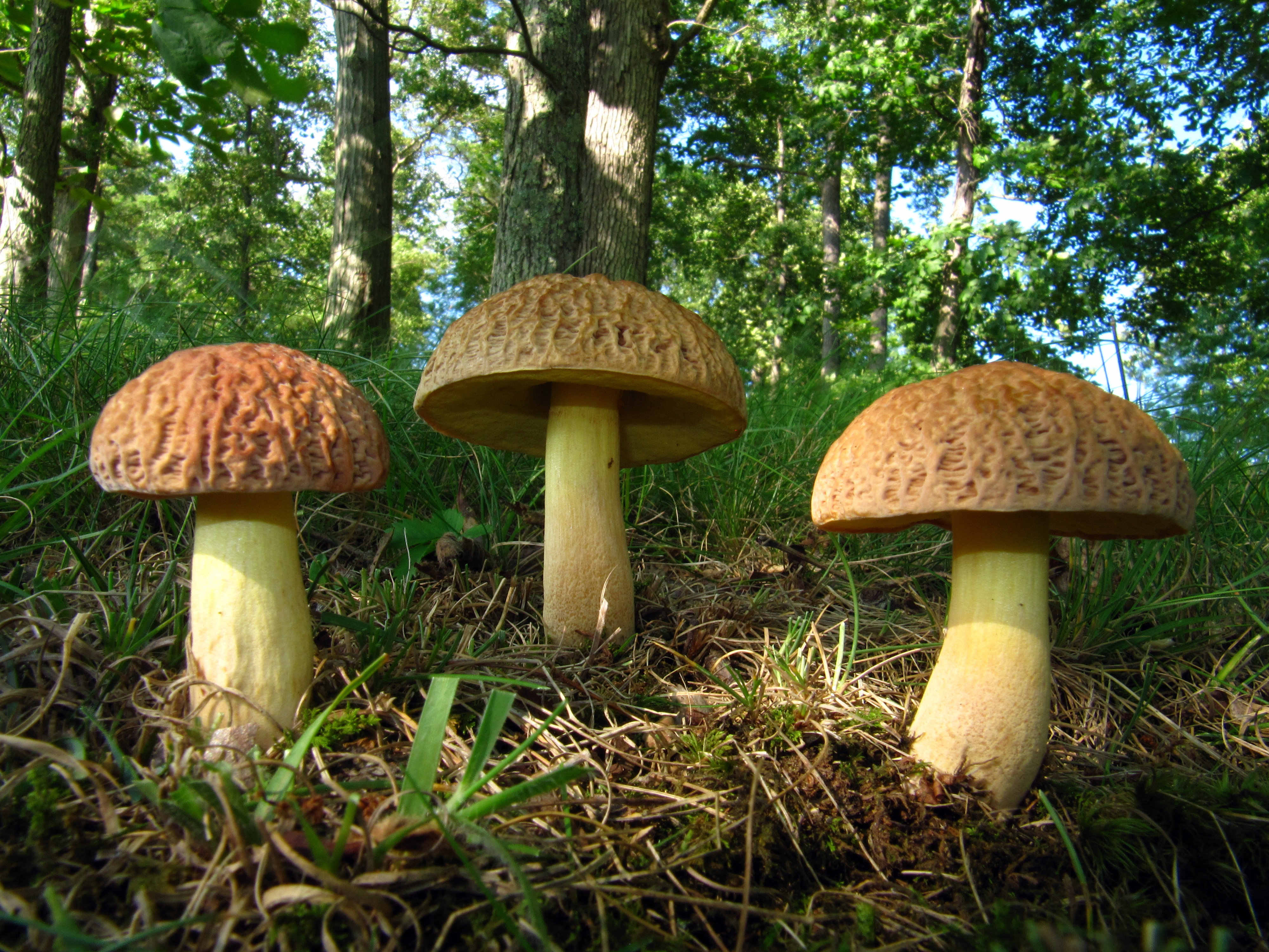 Boletus hortonii A.H. Sm. & Thiers Location: Rest Area, north bound, State Highway 33, between Pomeroy and Athens, Ohio, USA For more information about this, see the observation page at Mushroom Observer.